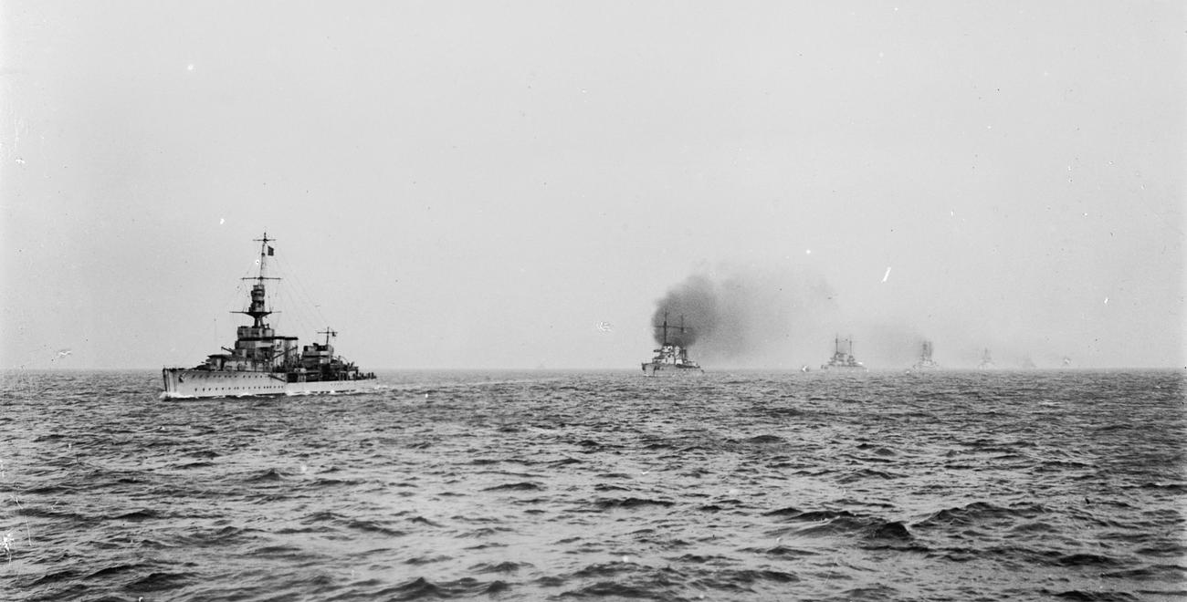 IWM caption: THE SURRENDER OF THE GERMAN HIGH SEAS FLEET, NOVEMBER 1918: Royal Navy light cruiser HMS Cardiff leading the German battle cruisers into the Firth of Forth.